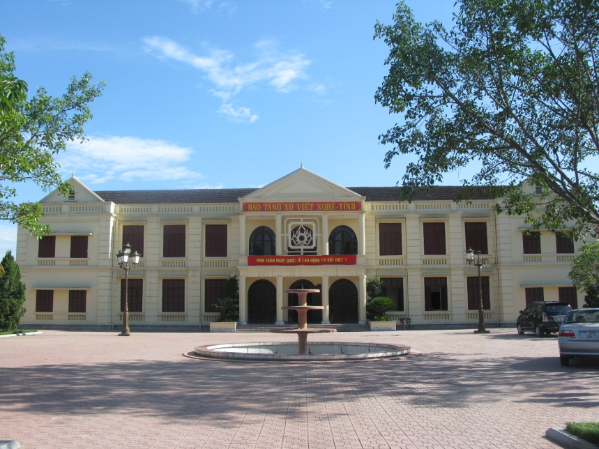 Museum of Xo Viet Nghe Tinh Riot, Vinh, Nghe An Province.